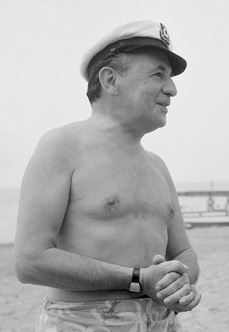 Sovietic-French director Léonide Moguy (Leonide Moguilevsky) talking on a beach with a British girl, Henriette Tiers, during the XVI Venice International Film Festival. Venice, 1955